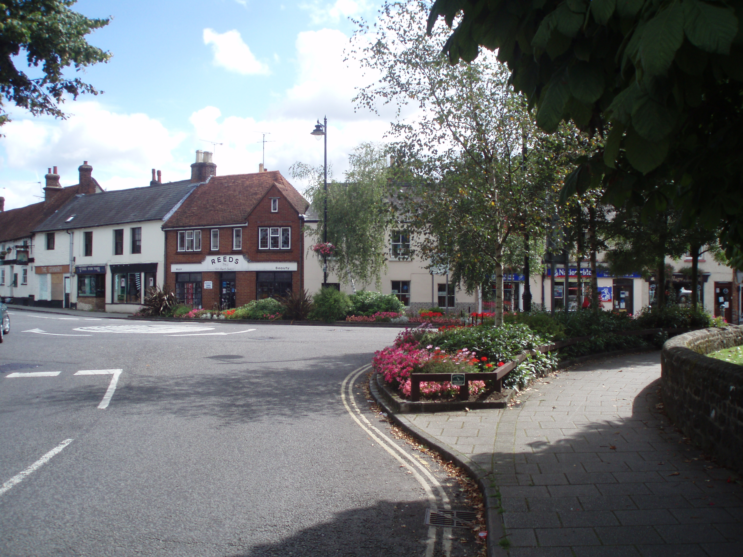 Photo taken 13th August 2007